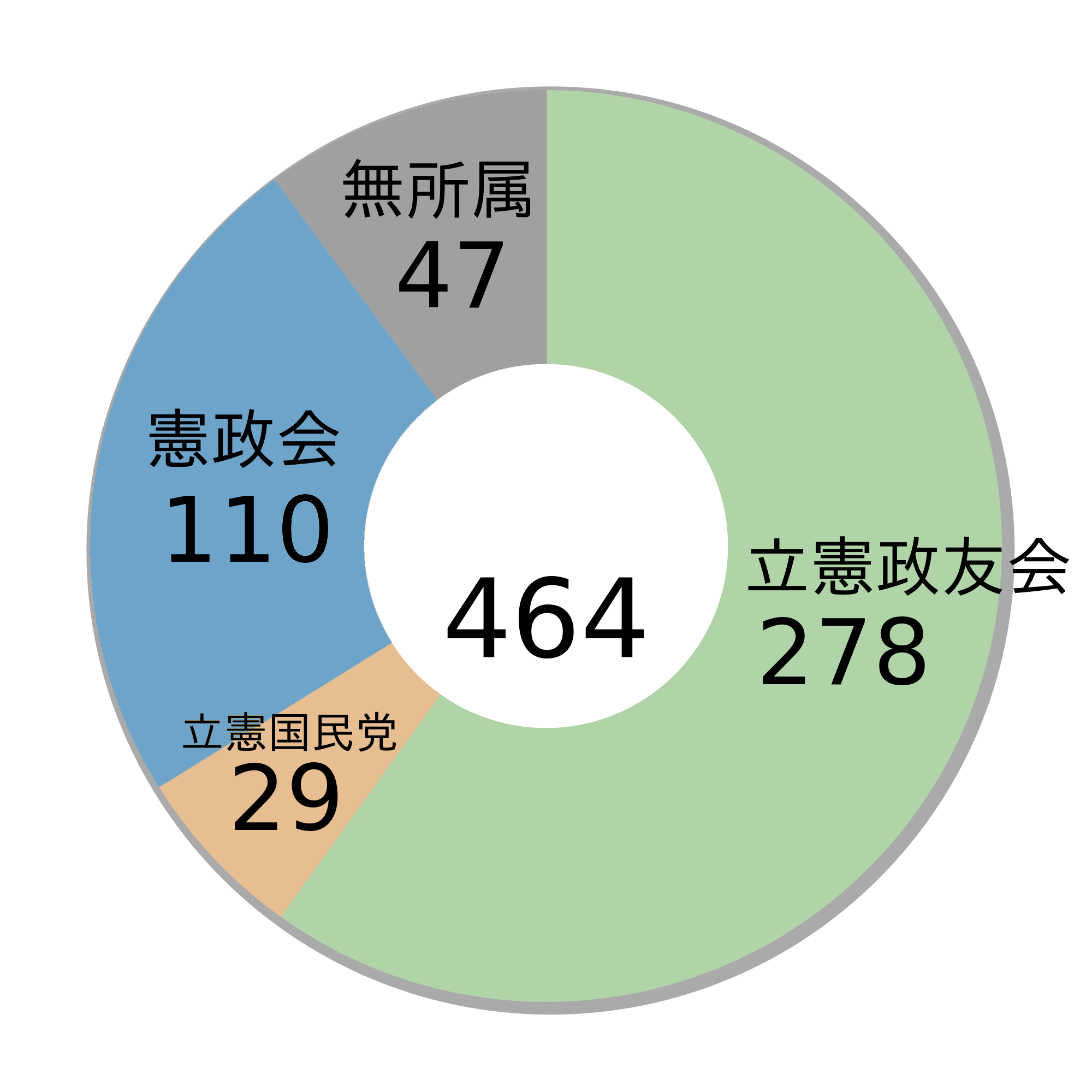 10 May 1920 Japanese General election results. LEGEND - Rikken Seiyu kai - Kensei kai - Rikken Kokumin Party - Independents